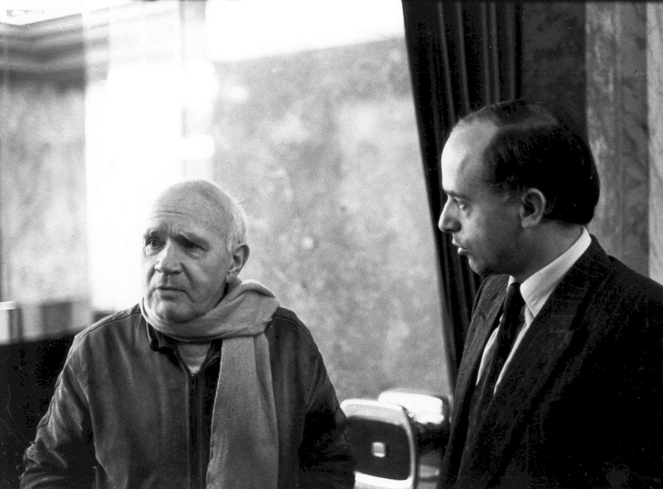 Dr. Hans Koechler, President of the I.P.O., mright, receiving French author Jean Genet at the Imperial Hotel in Vienna (19 December 1983) in connection with a lecture organized by the International Progress Organization